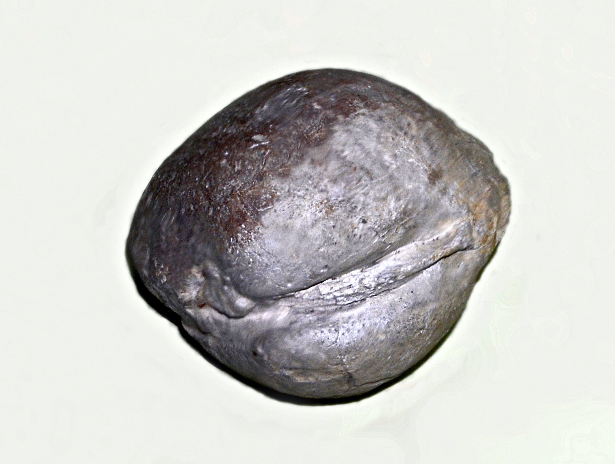 Fossil of Lucina species from Miocene of Italy